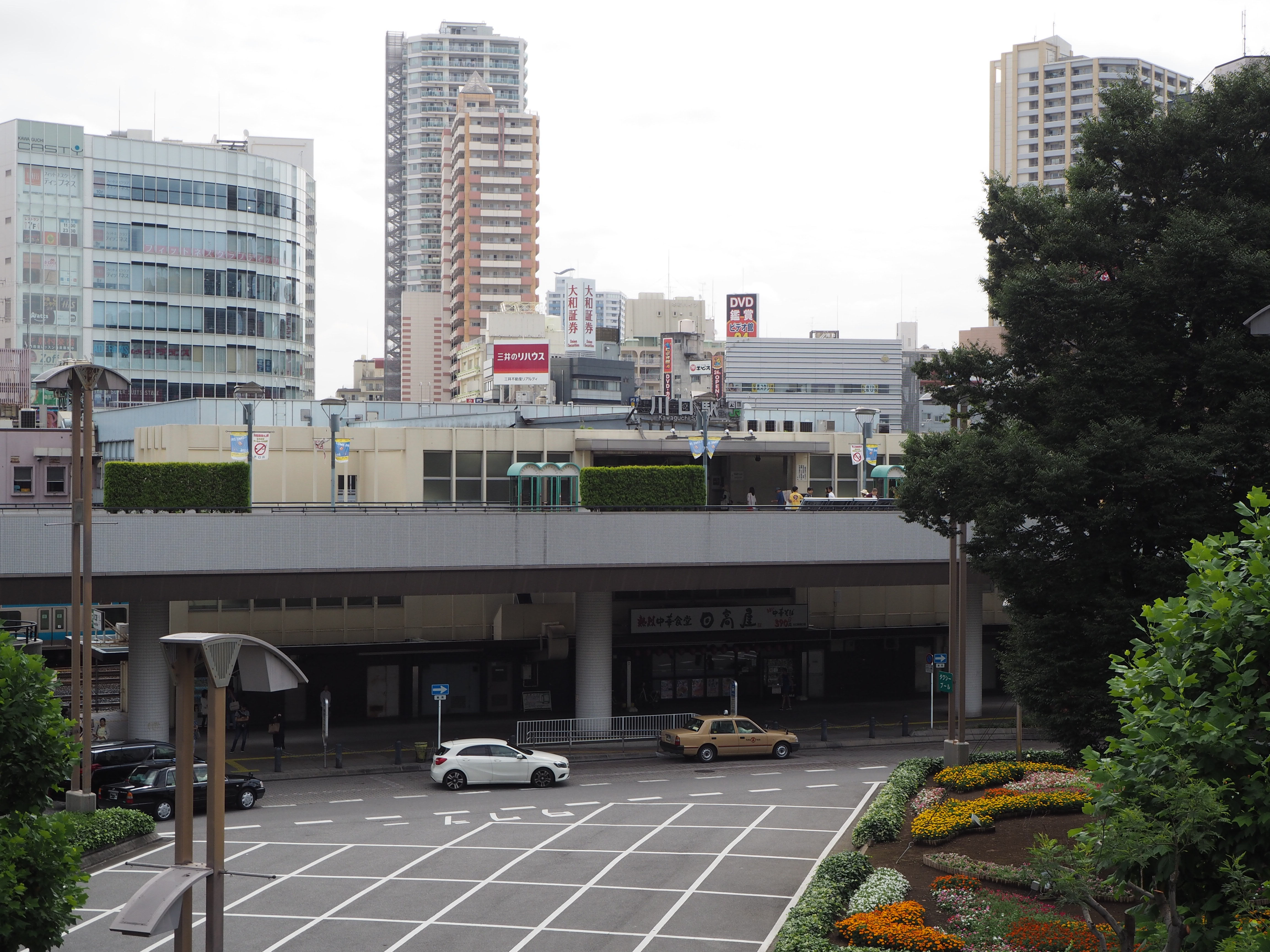 West entrance of Kawaguchi Station